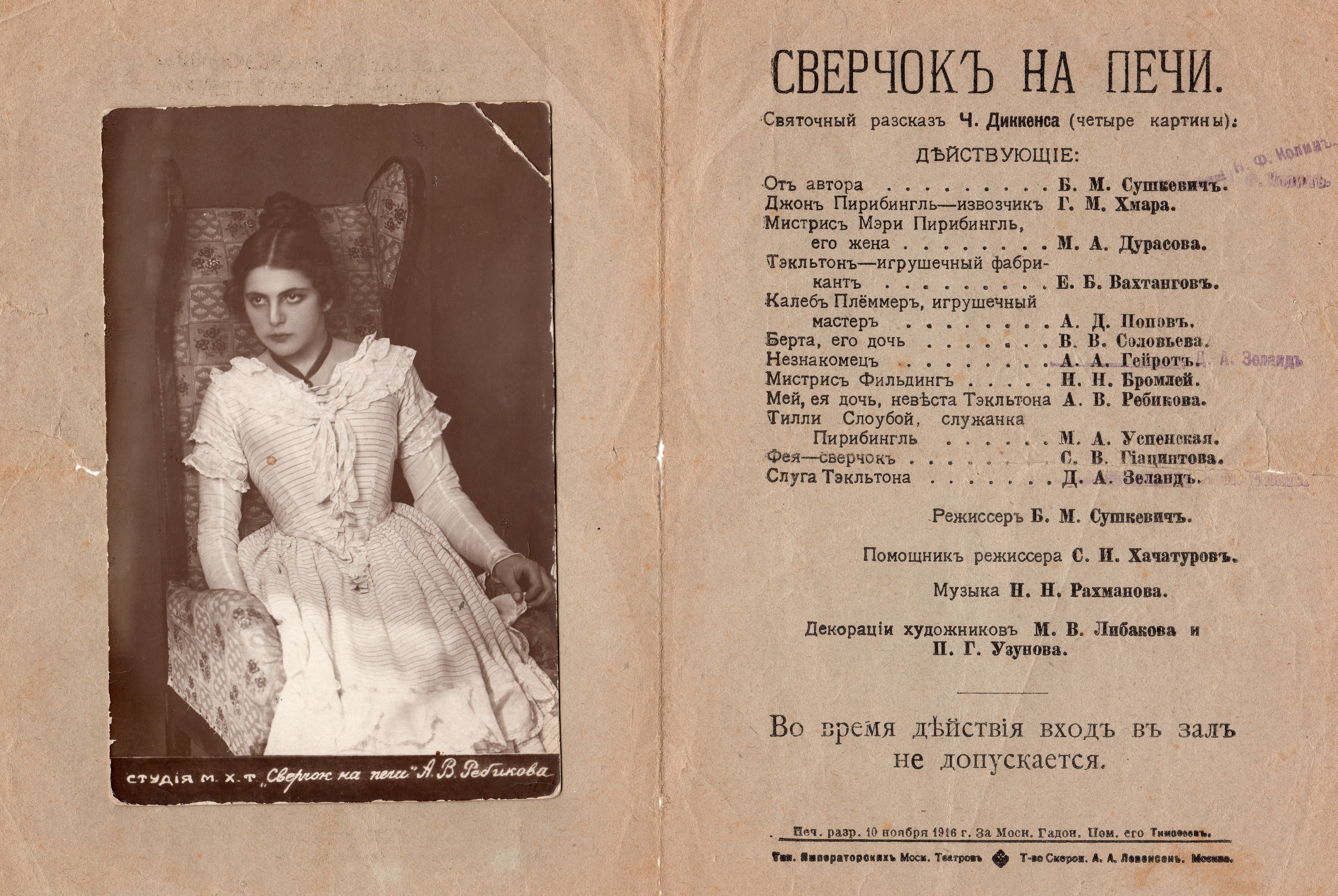 Actress Alexandra Rebikova - May in the play Moscow Art Theatre "The Cricket on the Hearth", 1916